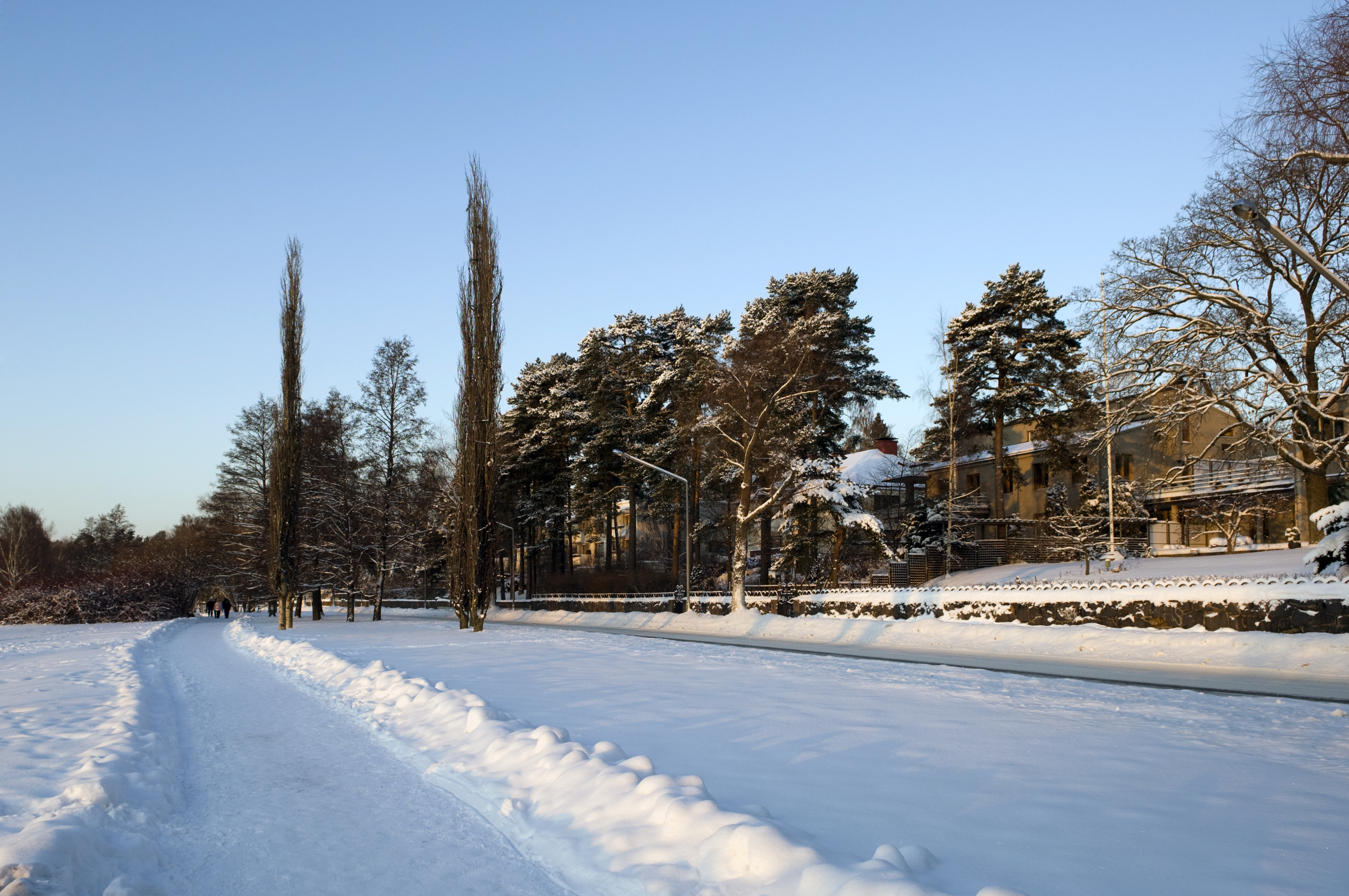 Munkkiniemenranta street and a footpath in Munkkiniemi, Helsinki, Finland.